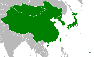 Participating countries of East Asian Games